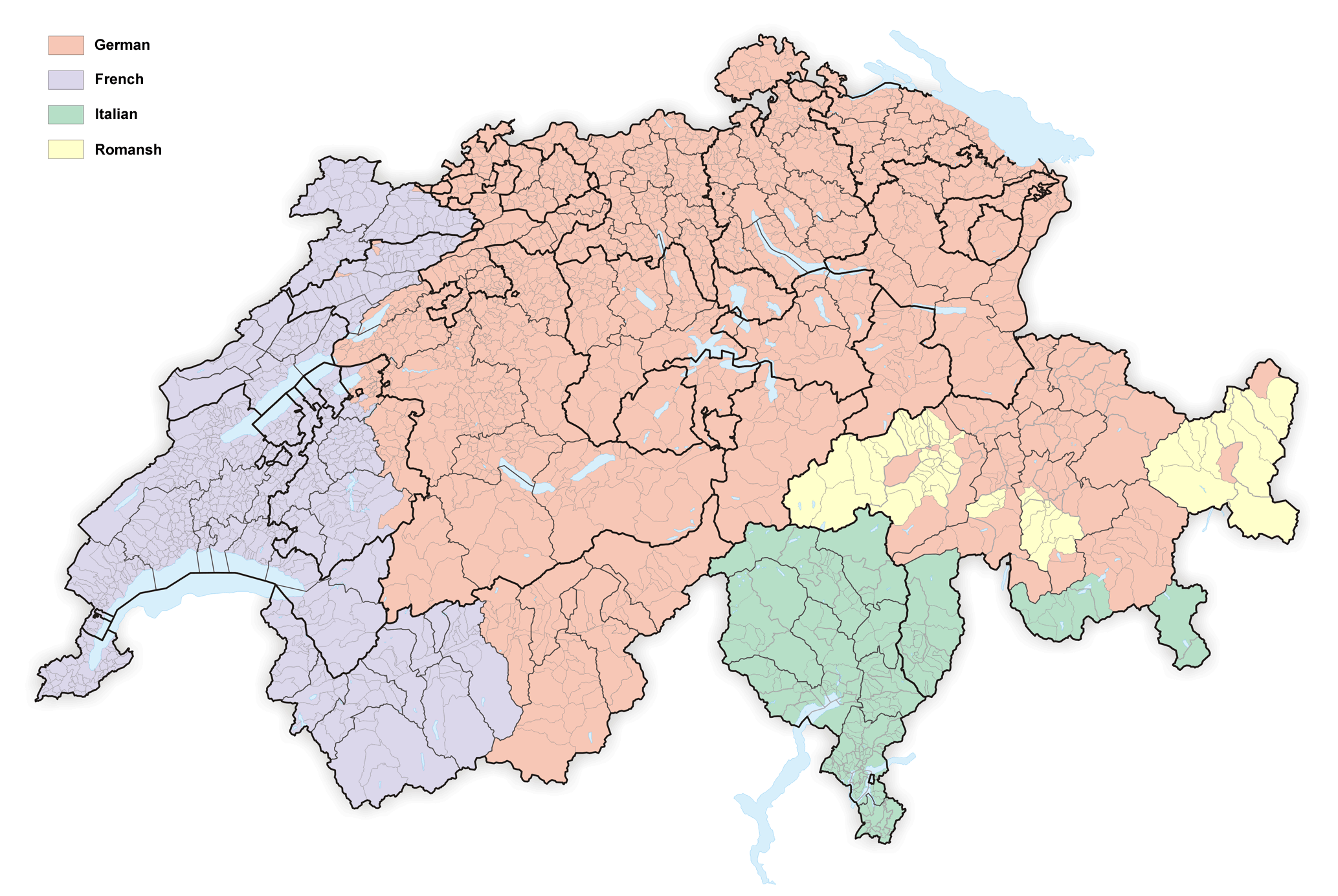 Linguistic map of Switzerland in 2010